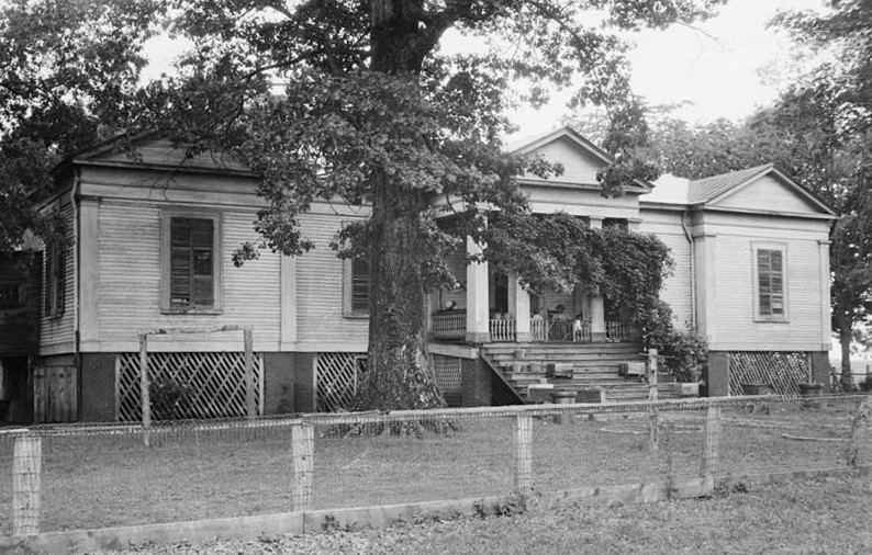 Straightened and cropped/reduced version of File:Norwood Plantation 01.jpg.